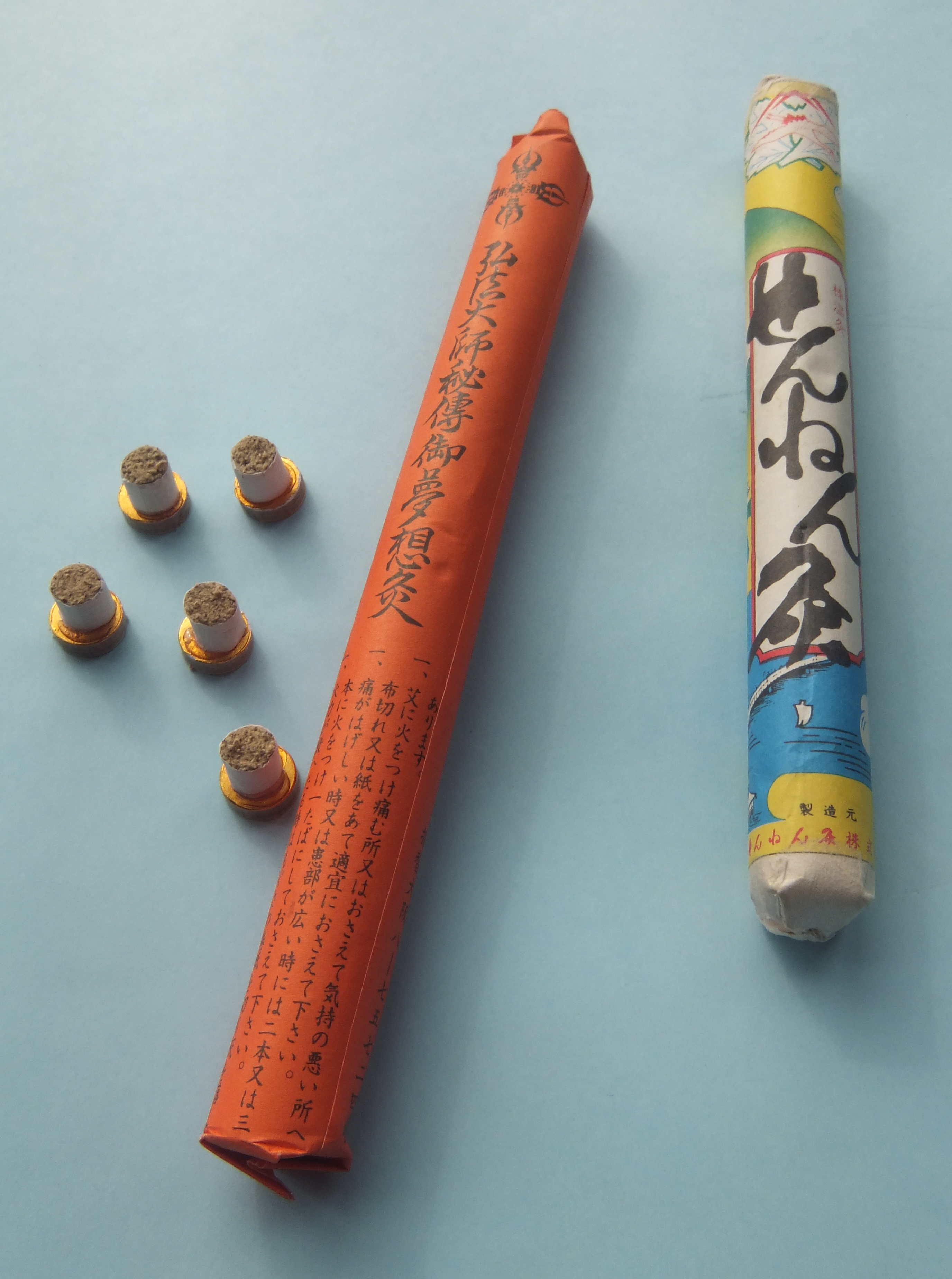 Stick–on moxa (left) and moxa rolls (right) used for indirect moxa heat treatment. The stick-on moxa is a modern product sold in Japan, Korea, and China. Usually the base is self adhesive to the treatment point. Both moxa rolls are Japanese products, the right one from the Ibuki area. The roll on the left hand side is attributed to the famous Buddhis monk Kūkai or Great Teacher Kōbō (Kōbō daishi) who is said to have introduced moxa burning in Japan after his studies in China. This roll is still used by monks in ceremonial treatments.